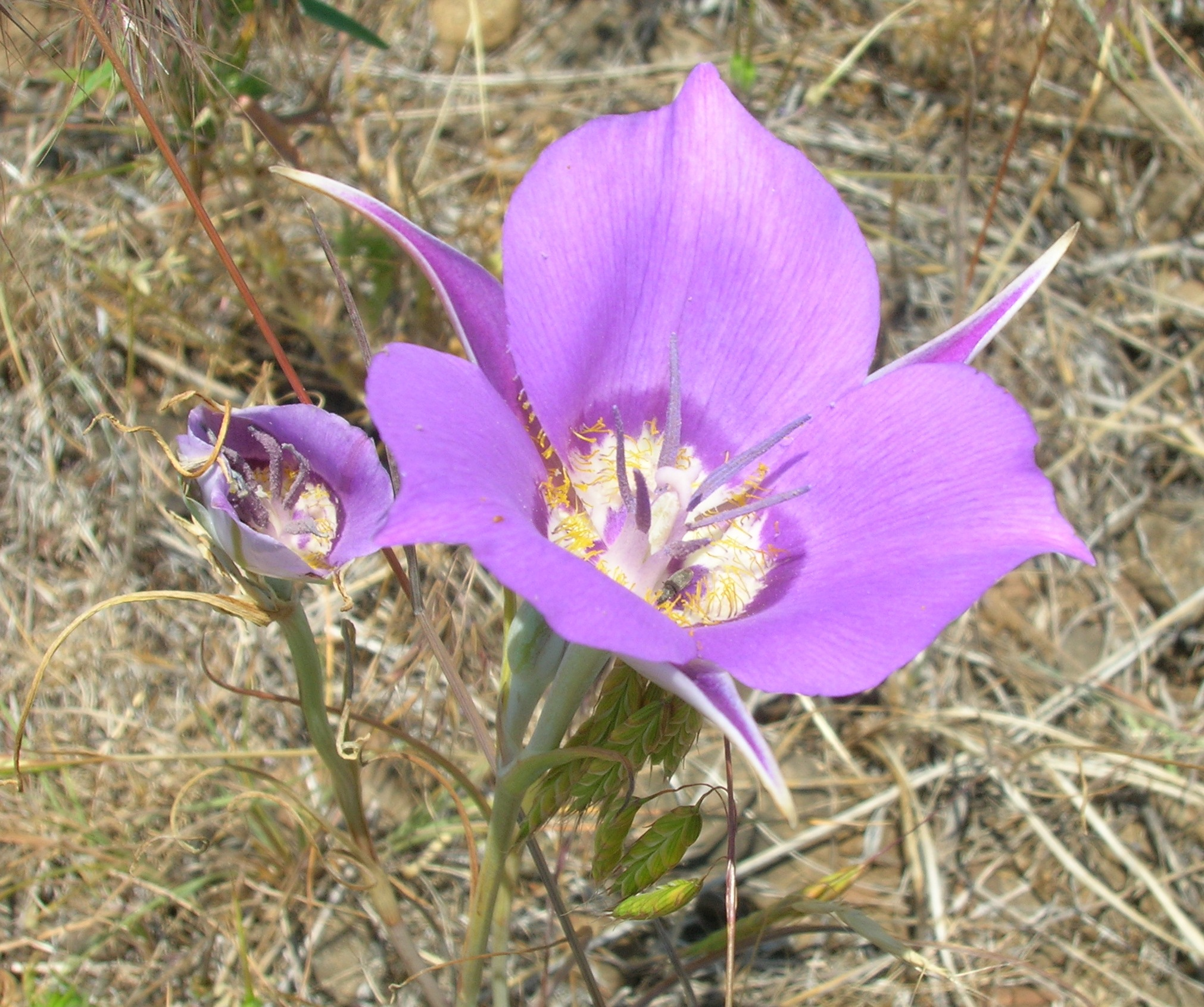 Calochortus macrocarpus, Upper Reecer Canyon Road north of Ellensburg, Kittitas County, Washington, USA, July 2, 2006